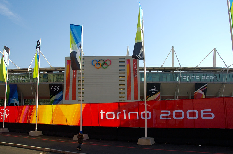 Stadio Olimpico in Turin, 2006 Winter Olympics.